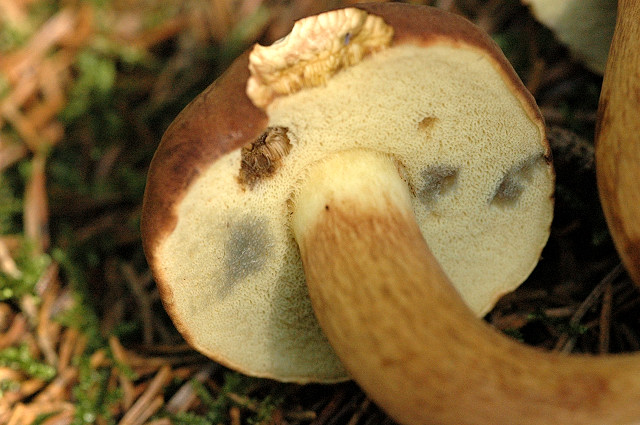 Boletus badius from Commanster, Belgium. If you think this is a different taxon, please contact James Lindsey.